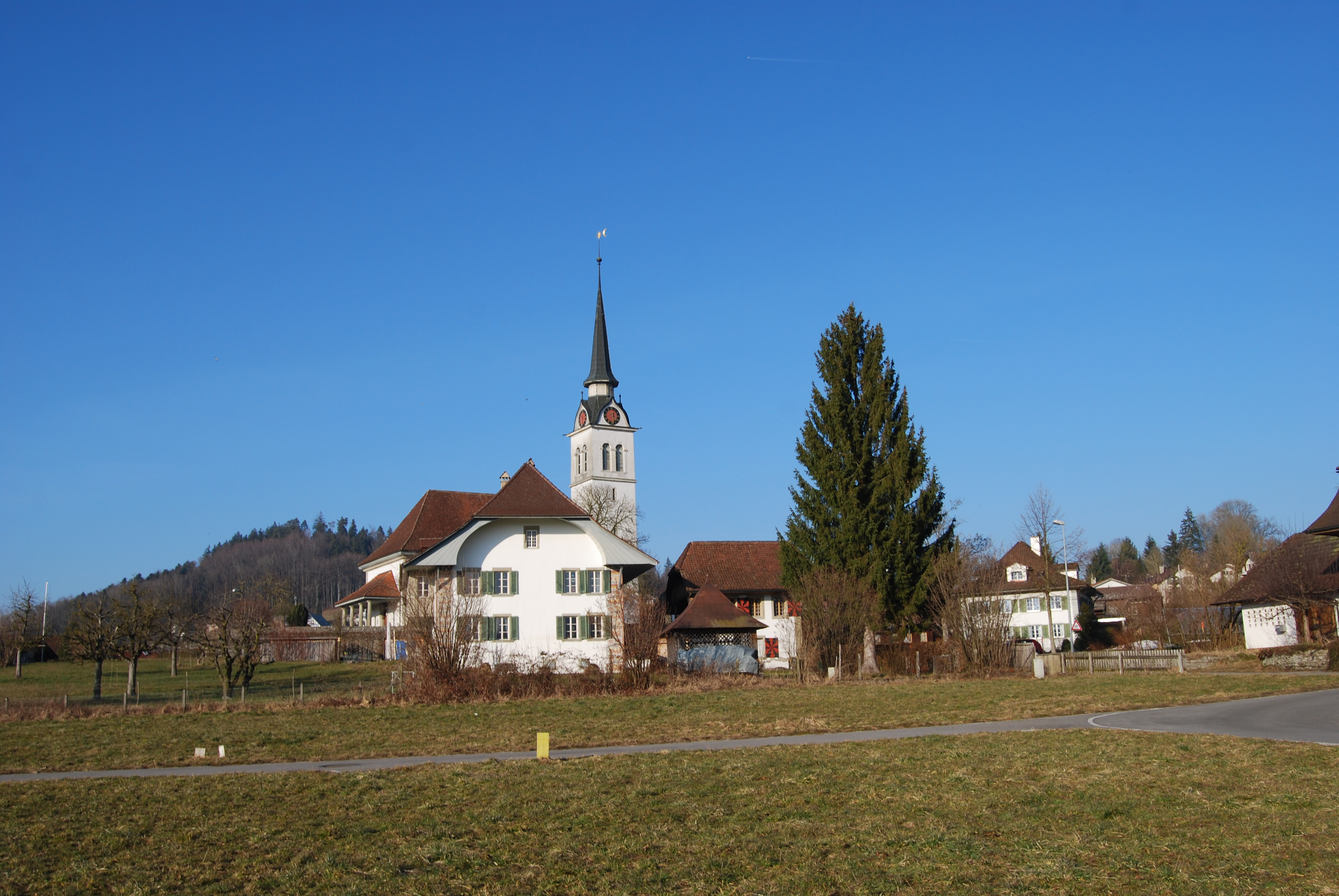 Protestant Church of Madiswil, canton of Bern, Switzerland